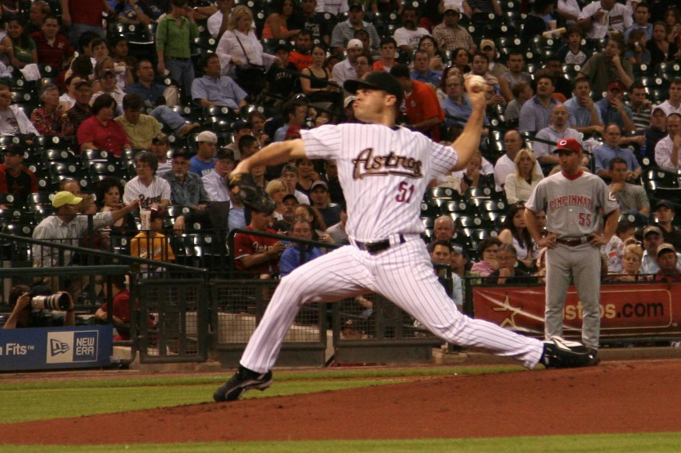 houston, tx